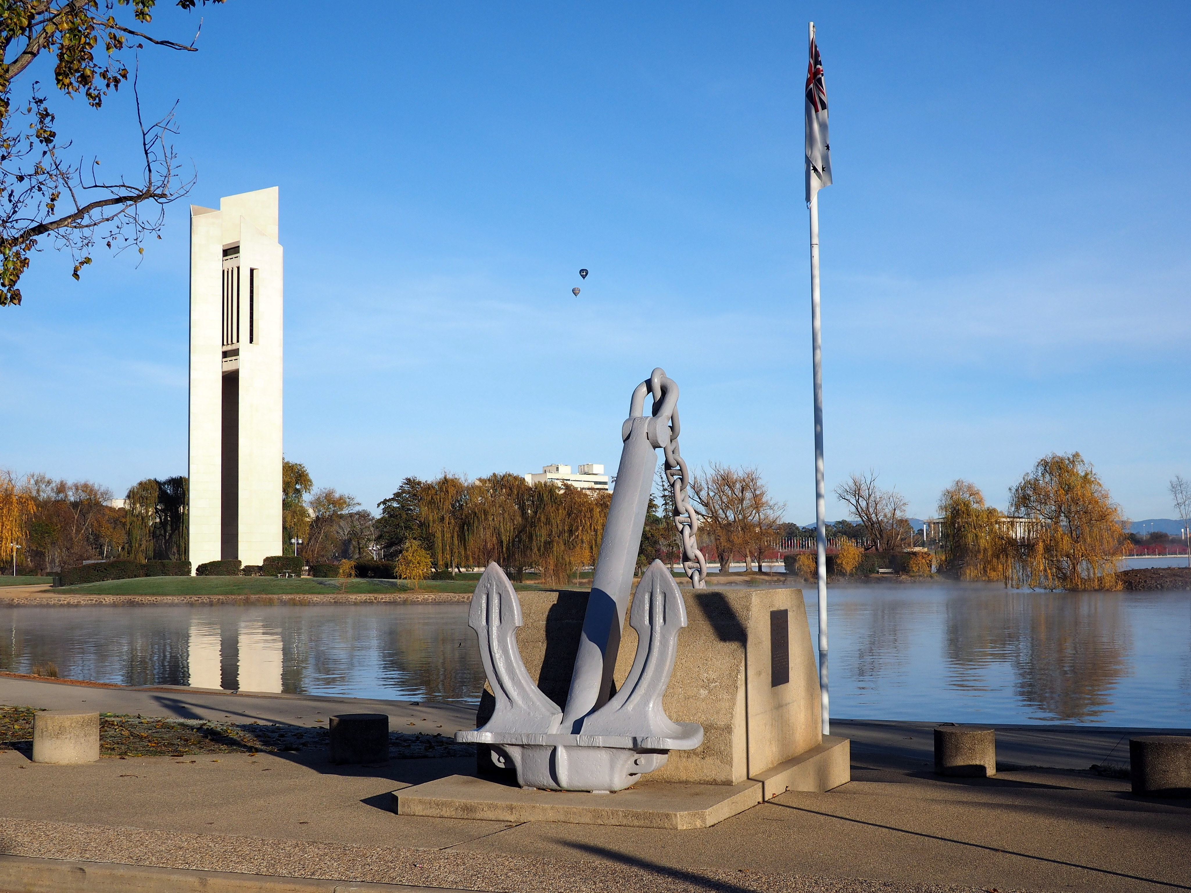 The HMAS Canberra Memorial